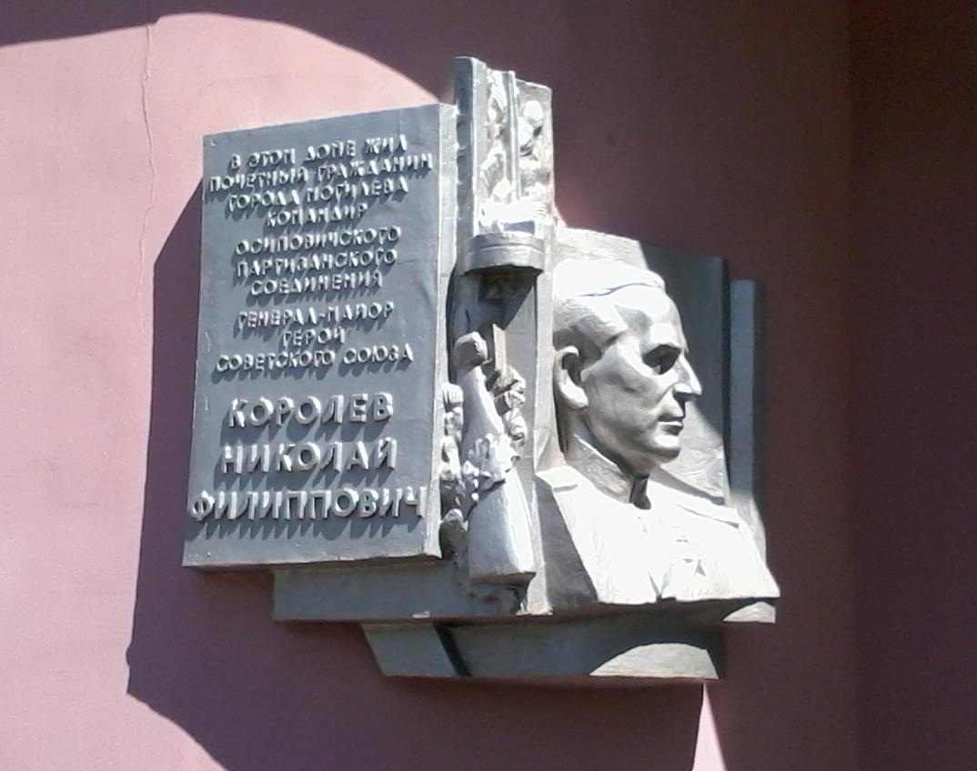 Memorial board of Nikolay Koroljov (Mogilev)